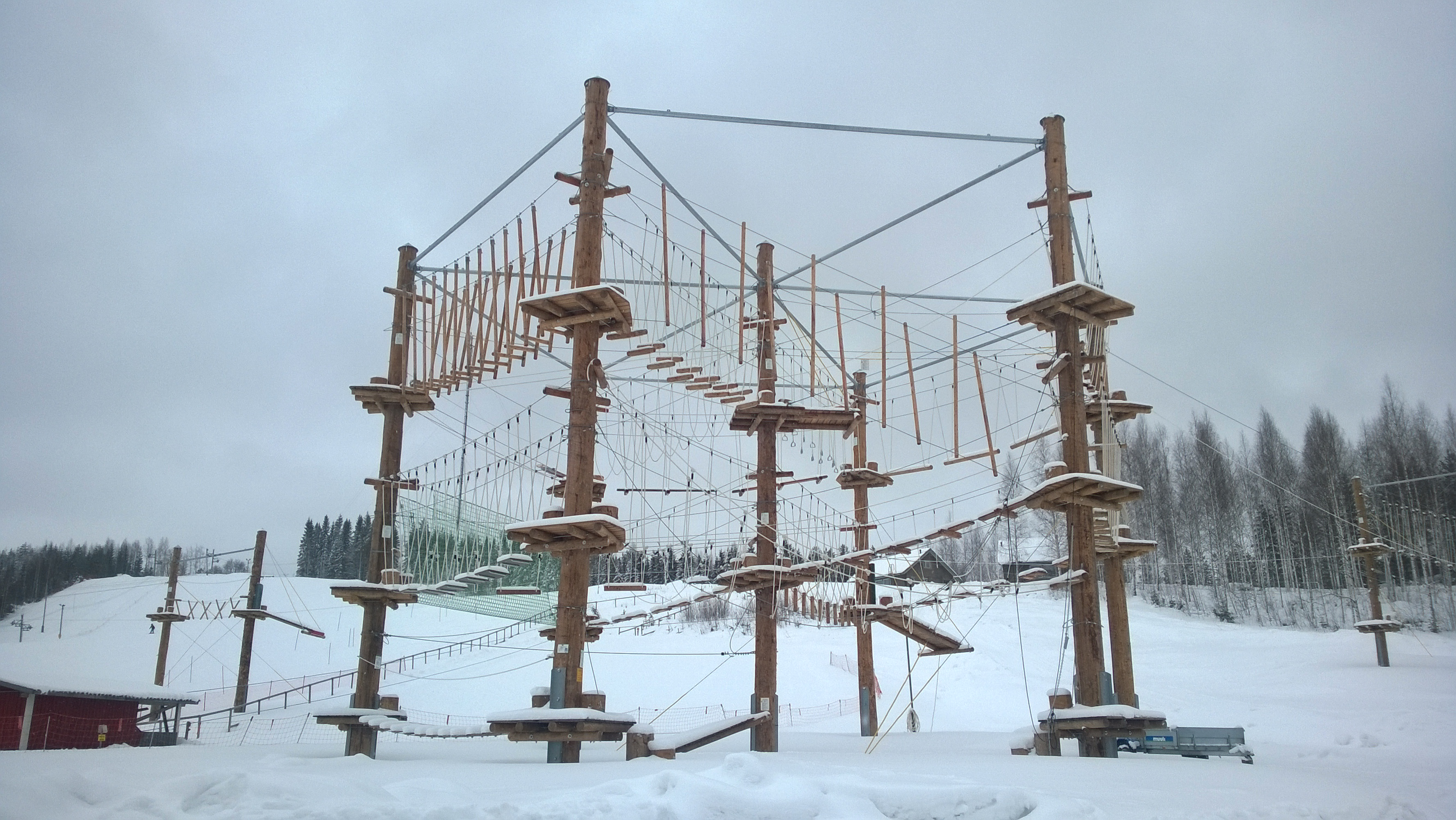 Skiing Center Lekotti in 2015.